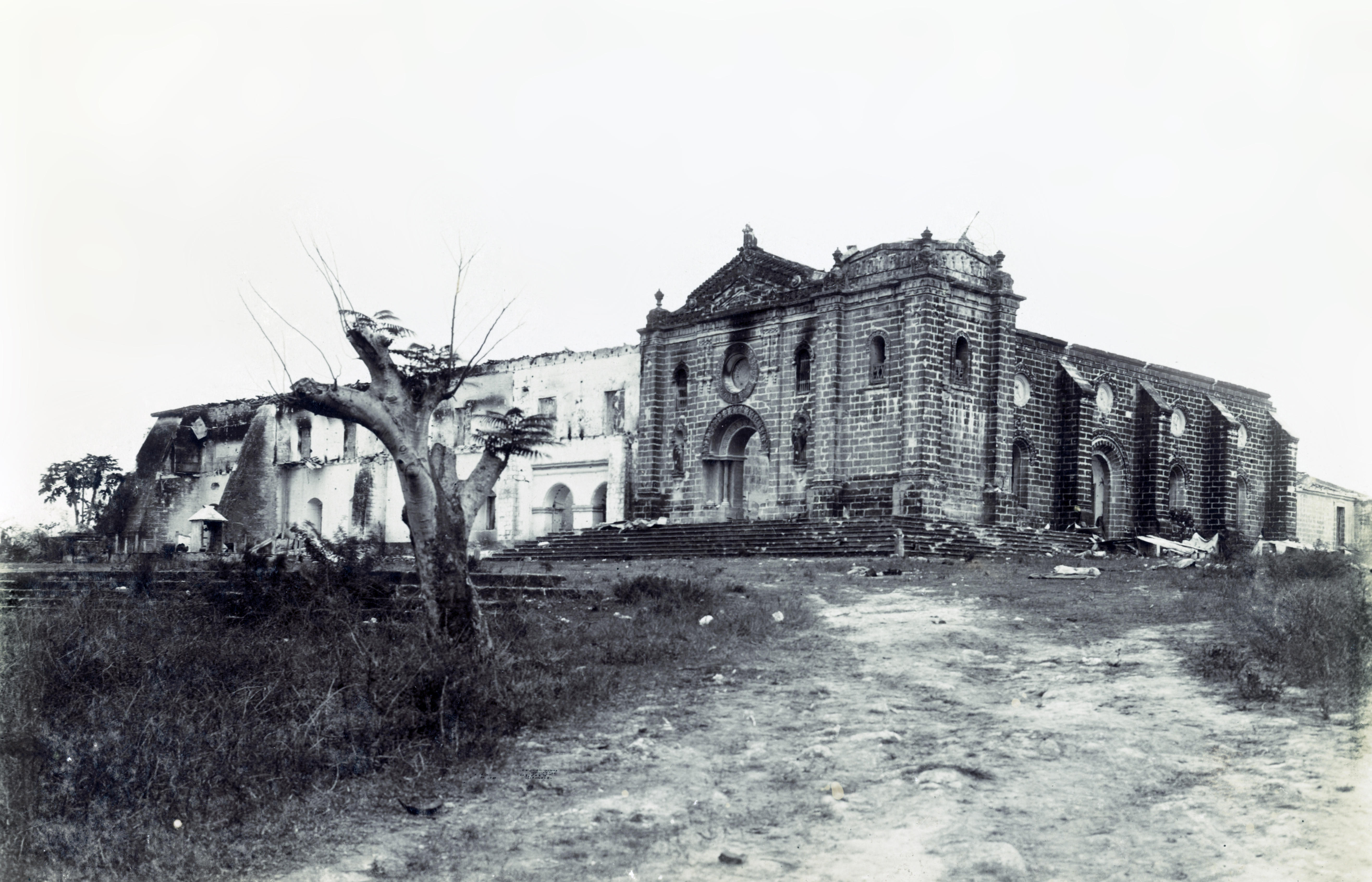 The ruins of the Guadalupe Church in Makati, Philippines, after it was burned down during the Philippine-American War in 1899. The Church is now known as Our Lady of Grace Church (Nuestra Señora de Gracia Church).